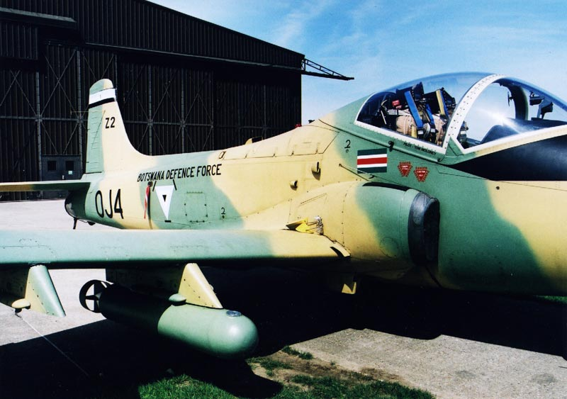 BAC Strikemaster of the Botswana Defence Force Air Wing